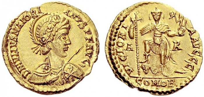 Majorian, 457–461, Solidus, Arelate “Comitatesian mint”, AV 4.46 g. D N IVLIVS MAIORI – ANVS P F AVG’ Helmeted, diademed, draped and cuirassed bust right, holding spear pointing forward and shield bearing Christogram on left arm. Rev. VICTORI – A AVGGG Emperor standing facing, holding long cross in right hand and Victory on globe in left; resting left foot on man-headed serpent. In field, A – R and in exergue, COMOB. C 1. RIC 2632. LRC 884. Depeyrot 25/1. Lacam 26.